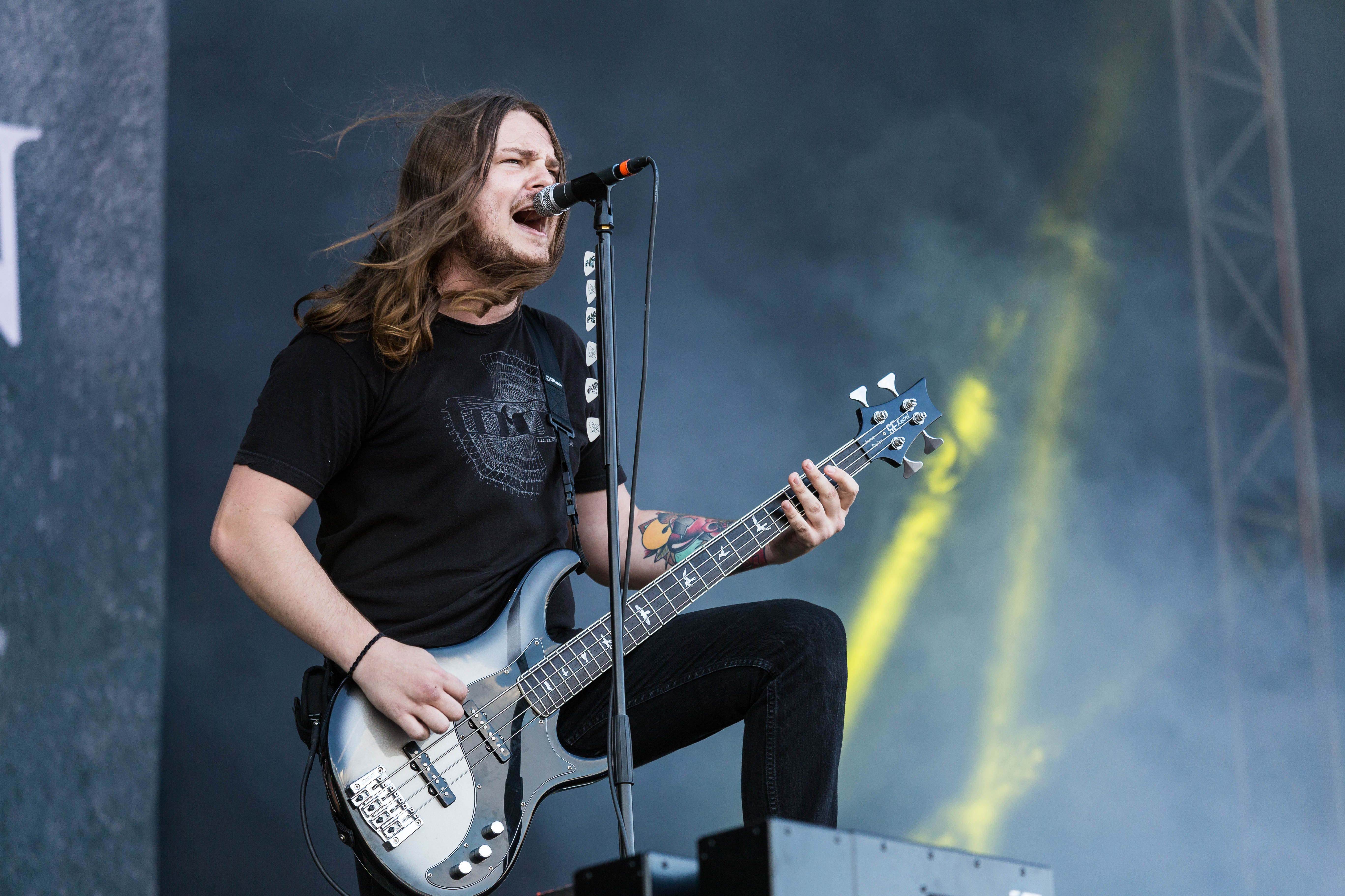 Nova Rock 2017 Aaron Pauley from Of Mice & Men at the Nova Rock 2017